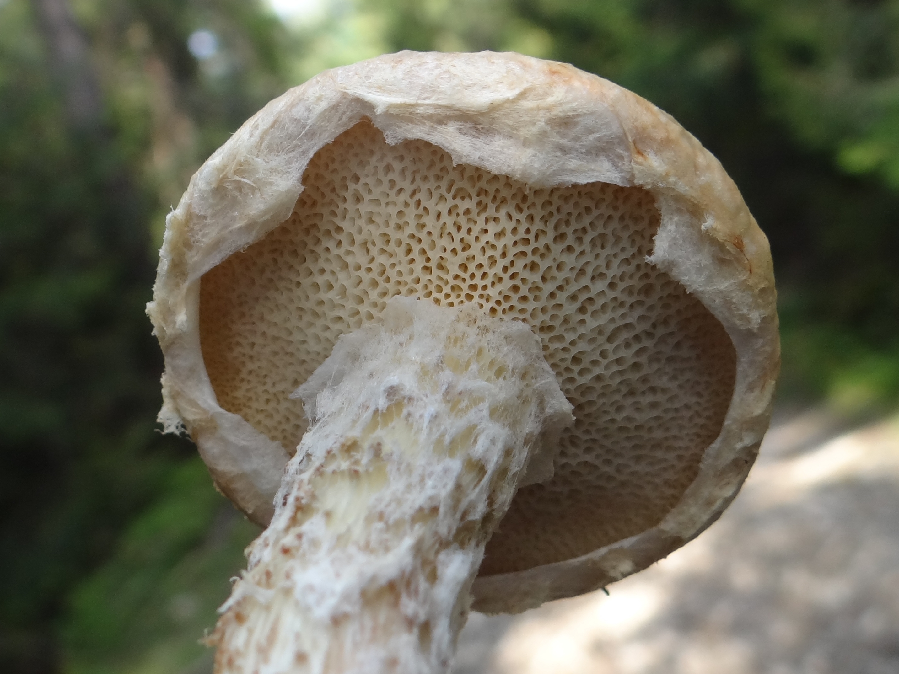 Suillus viscidus (locationː Poland)